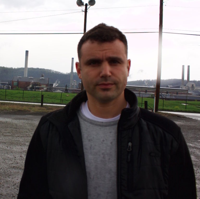 Photo of freelance journalist Alexander Zaitchik outside of Pittsburgh, PA in the Spring of 2016